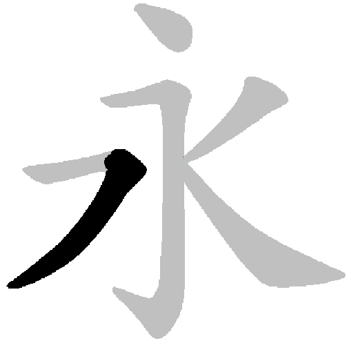 eight principles of the character Yong 永 (永字八法 Yǒngzì Bāfǎ) of the Chinese calligraphy